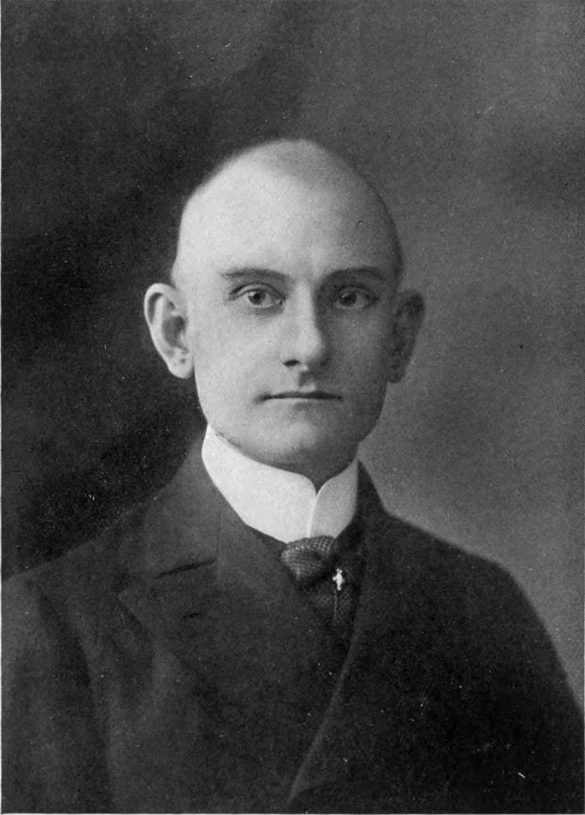 Portrait photograph of Charles A. Bigelow